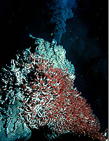 Part of a 360°C black smoker chimney with the Main Endeavour hydrothermal field on the Juan de Fuca Ridge in the N.E. Pacific ocean. Vibrant colonies of tube worms with red gills thrive on this large edifice, which is predominantly composed of iron- and sulfur-bearing minerals.